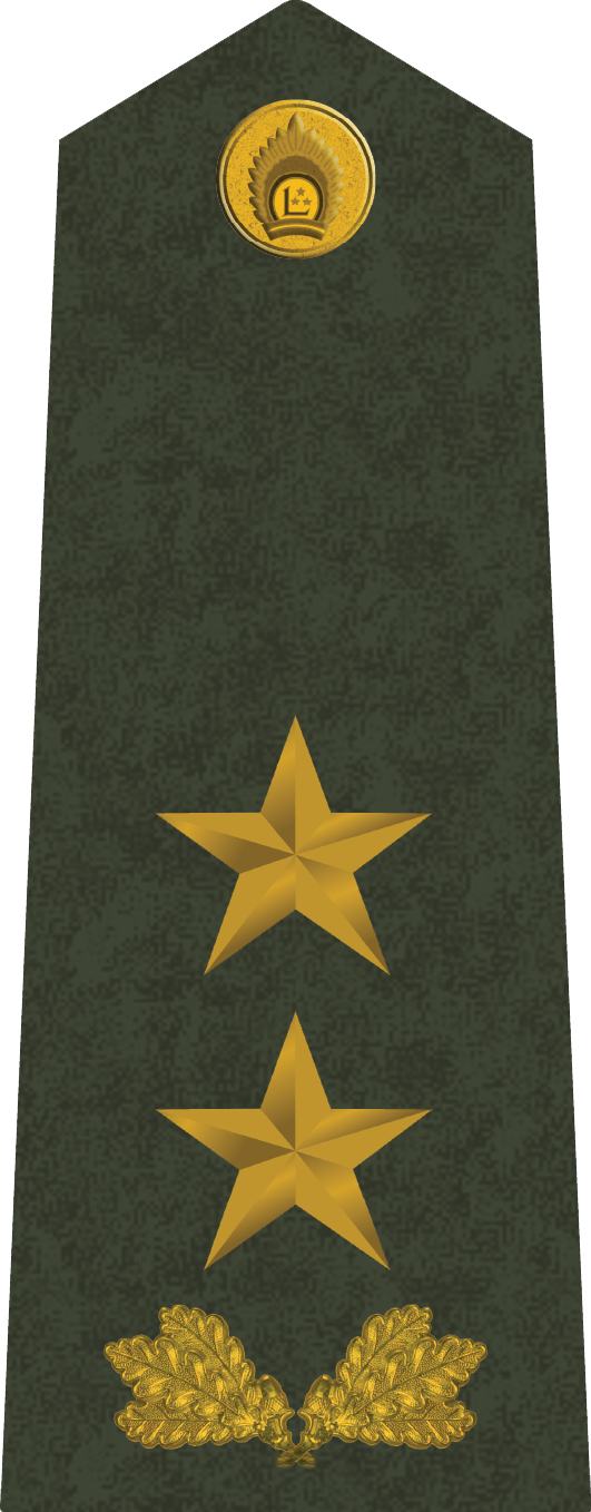 Latvian Major General rank insignia